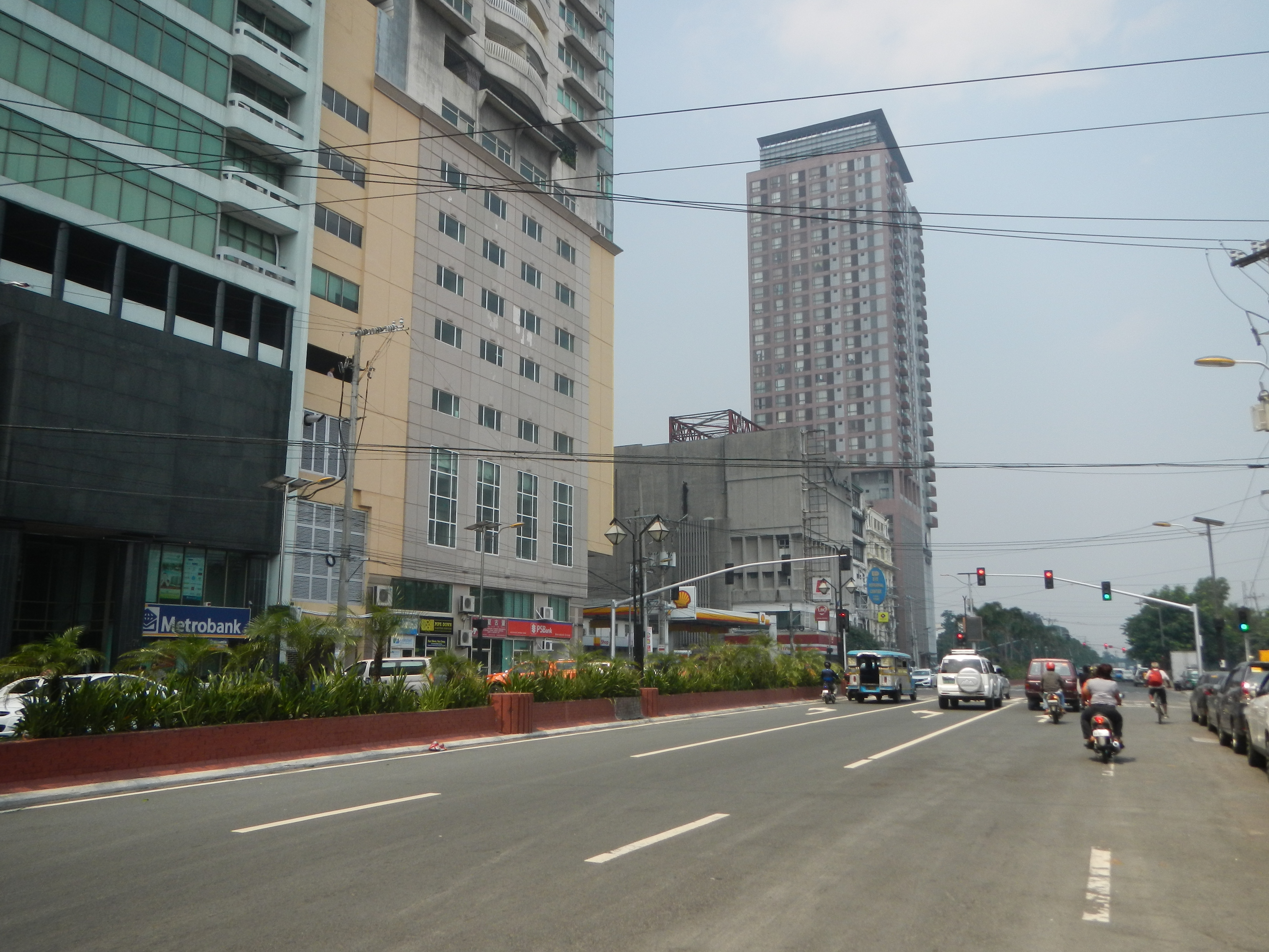 Kalaw Avenue; Luneta Hotel, Eton Baywalk Manila, Rizal Park; Ermita, Manila, City of Manila; (Manila Bay along South Road (Rizal Park) corner Roxas Boulevard including, beside Harbor View (Rizal Park), National Parks Development Committee, South Gate A beside Manila Ocean Park Welome Arch South Entrance Hotel H20 Manila opened its doors in 2009 beside Elpidio Quirino Monument in Quirino Grandstand (Note: Judge Florentino Floro, the owner, to repeat, Donor Florentino Floro of all these photos hereby donate gratuitously, freely and unconditionally all these photos to and for Wikimedia Commons, exclusively, for public use of the public domain, and again without any condition whatsoever).